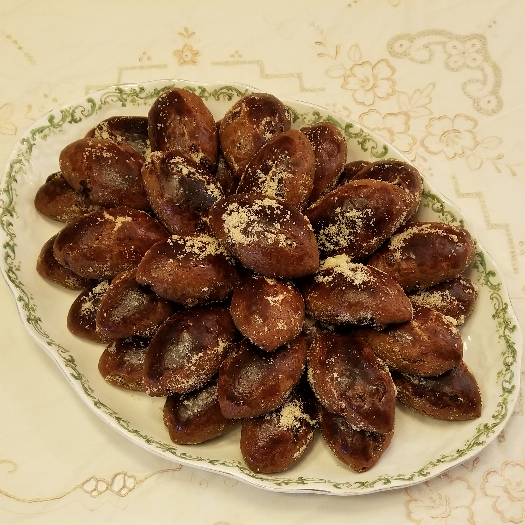 Broa de mel, Portuguese honey cake, (pictured) made by Nuno Pereira for the Garden Caffé in Parede, Cascais, Lisboa (Lisbon), Portugal.